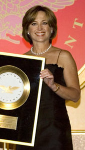 Dorothy Hamill, 1976 US Gold Medal Olympic Champion, presents Mrs.Laura Bush the Academy of Achievement Golden Plate Award Friday, June 22, 2007, during a ceremony in Washington, D.C. Mrs. Bush was presented the award for her achievements in Public Service, Friday, June 22, 2007. President George H.W. Bush received the Golden Plate Award in 1995.